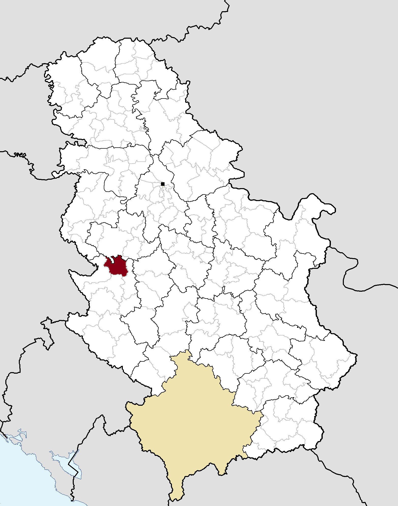 Municipal location in Serbia